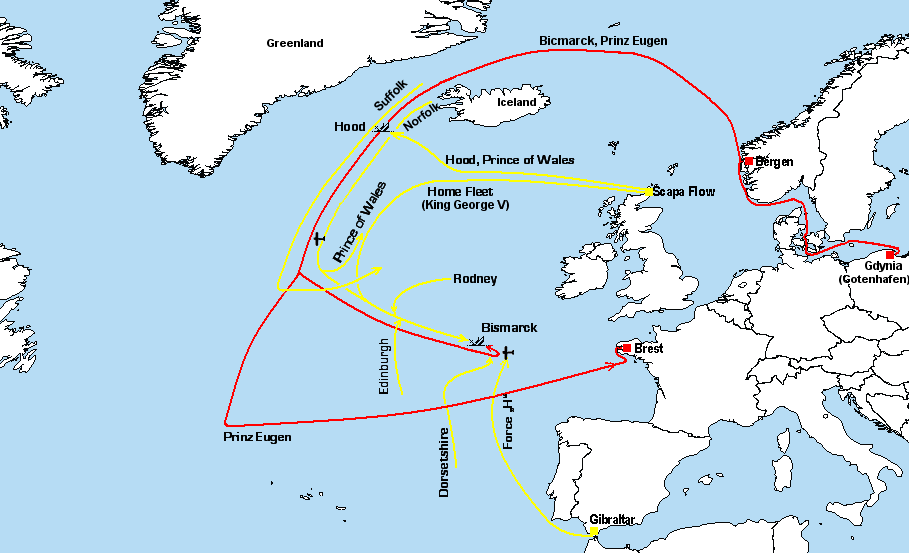 Map of the Operation "Rheinübung" and Royal Navy operations against the German battleship Bismarck, with approximate movements of ship groups and places of aerial attacks. A similar map is depicted in "Müllenheim-Rechberg Freiherr von, Burkard (1980). Schlachtschiff Bismarck 1940/41—Der Bericht eines Überlebenden (in German). Berlin, Frankfurt/M, Wien: Ullstein. ISBN 3-550-07925-7" on page 76 tracing the paths of British and German vessels.